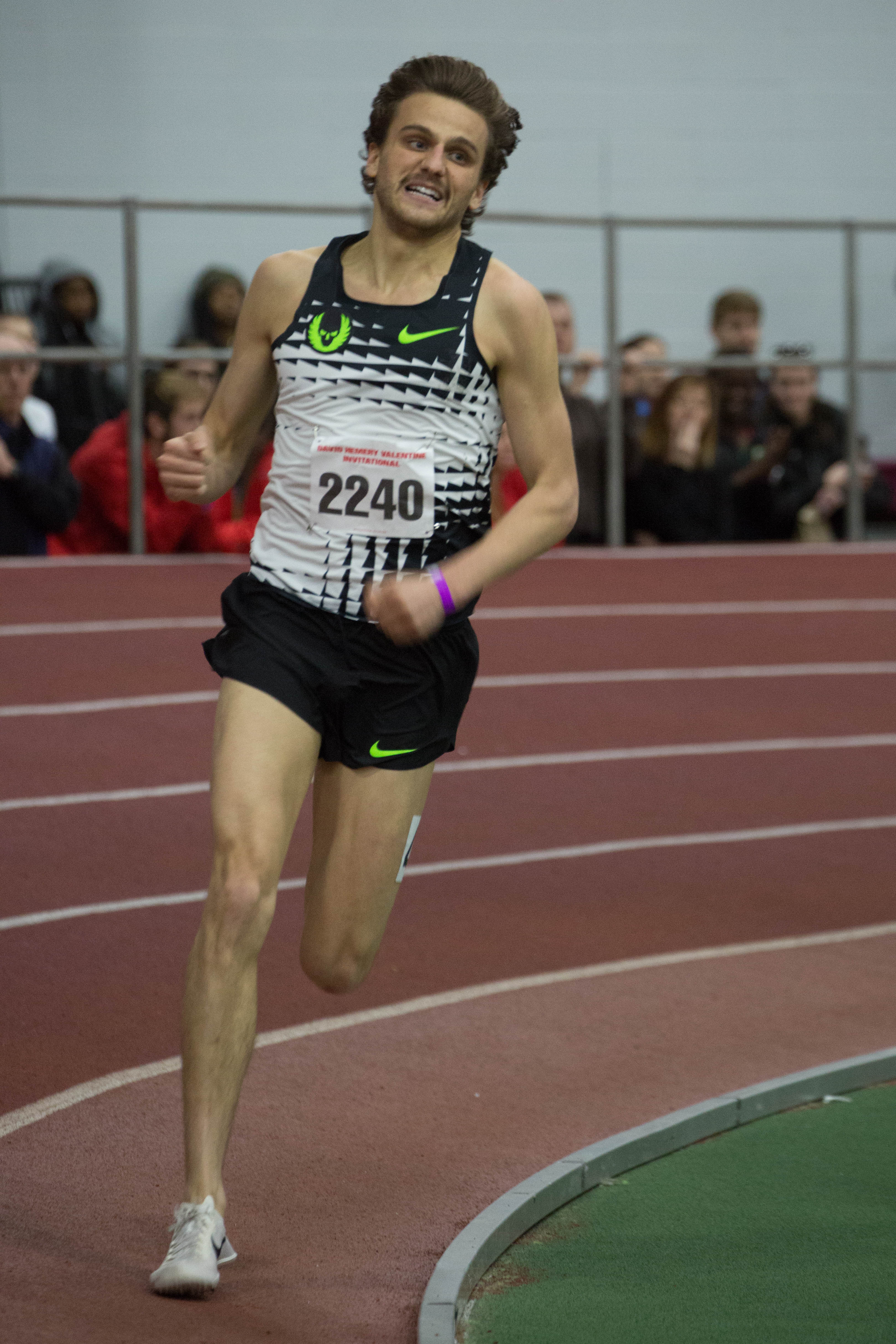 Craig Engels at the 2018 BU David Hemery Valentine Invitational.